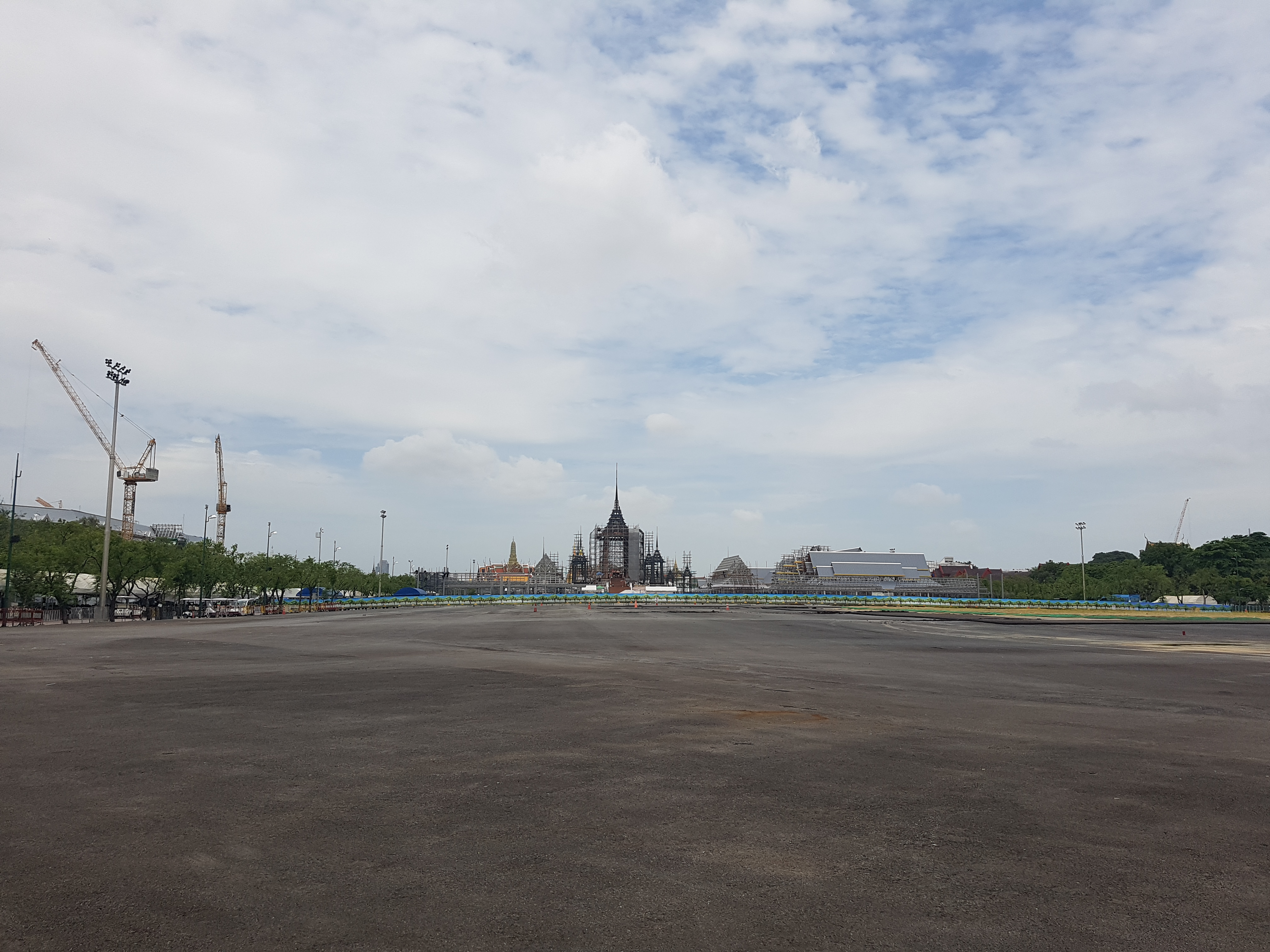 Construction of a crematorium for Bhumibol Adulyadej at Sanam Luang in Bangkok, Thailand.